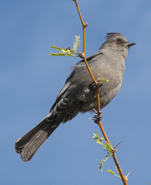 Phainopepla nitens Tucson, AZ